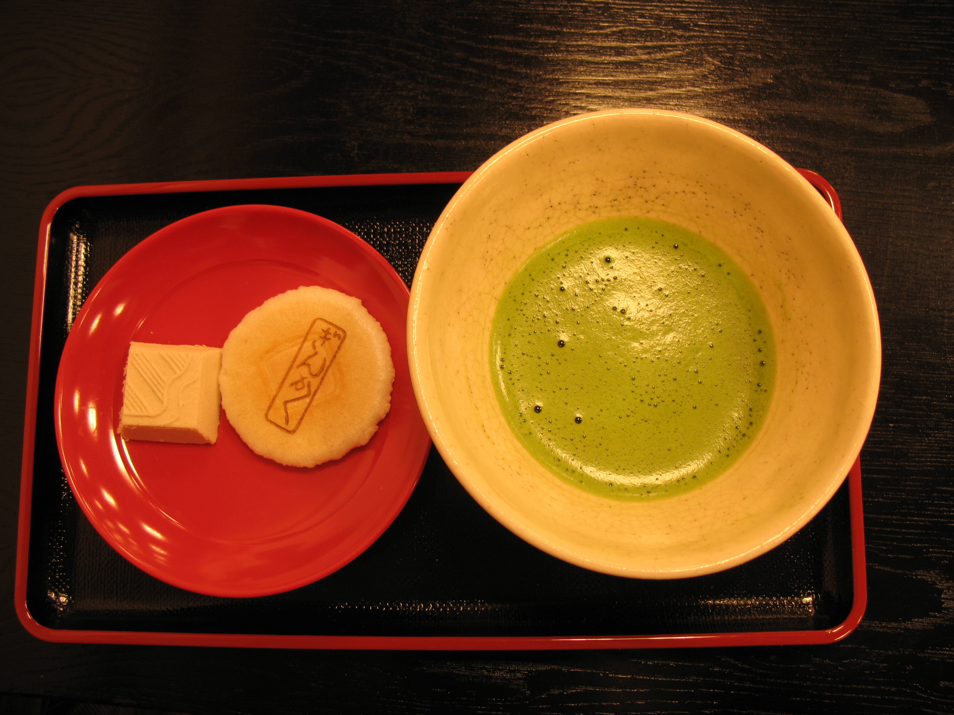 Matcha o deml Kinkaku-ji yn Kyoto